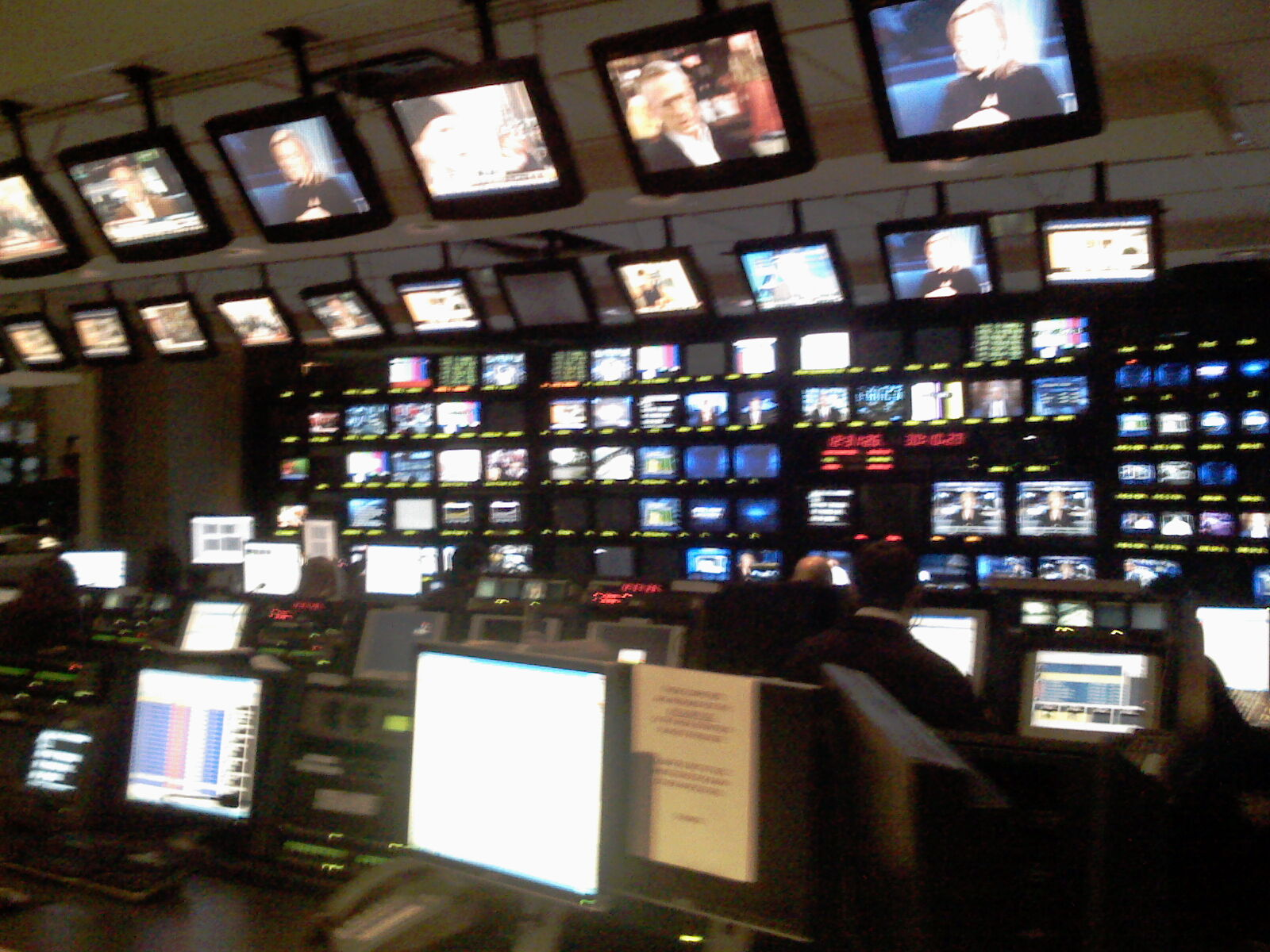 CNBC NJ HQ Control RoomCNBC Control Room